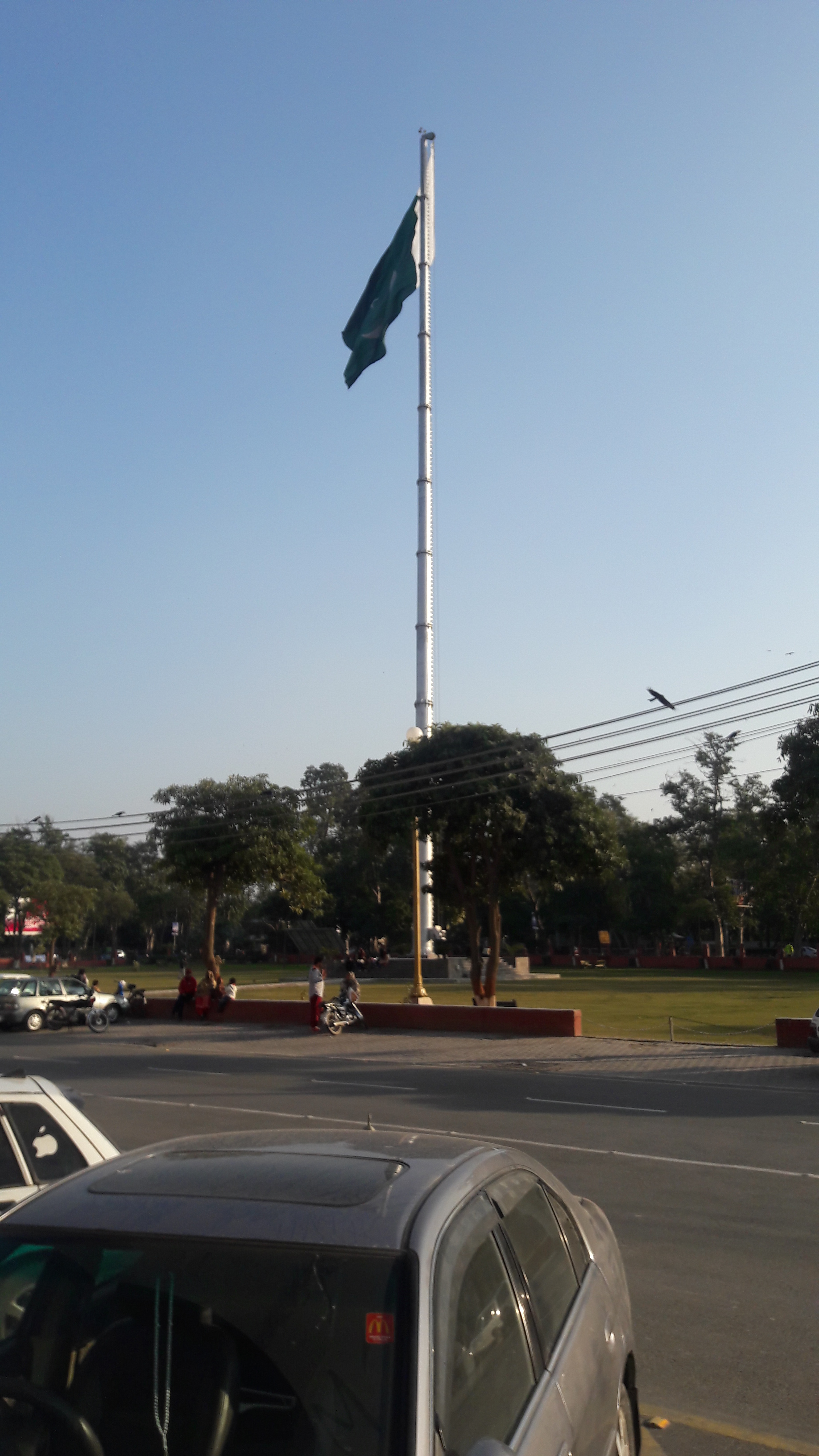 Flag Near Fortress Stadium, Lahore